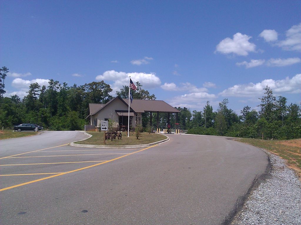 Entrance area to Bogue Chitto State Park near Franklinton, Louisiana.